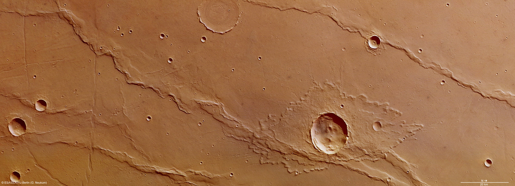 wrinkle ridges on the planet mars in the melas region